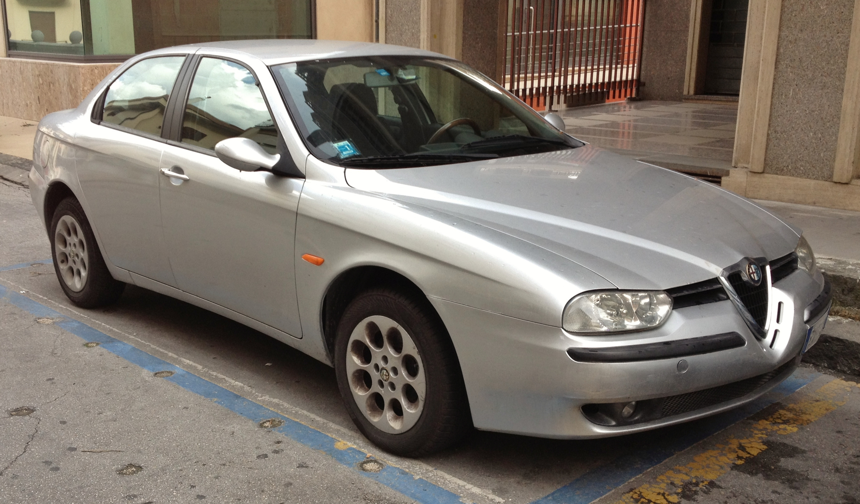 1999 Alfa Romeo 156 berlina 1.9 JTD